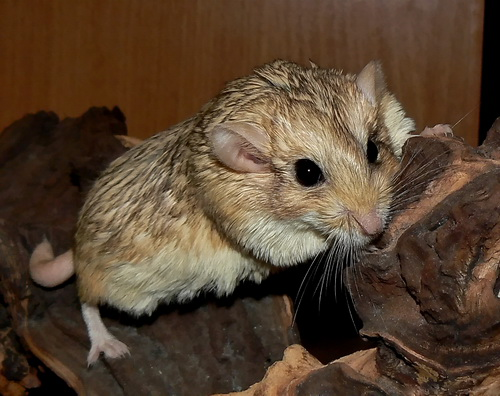 Fat-tailed gerbil